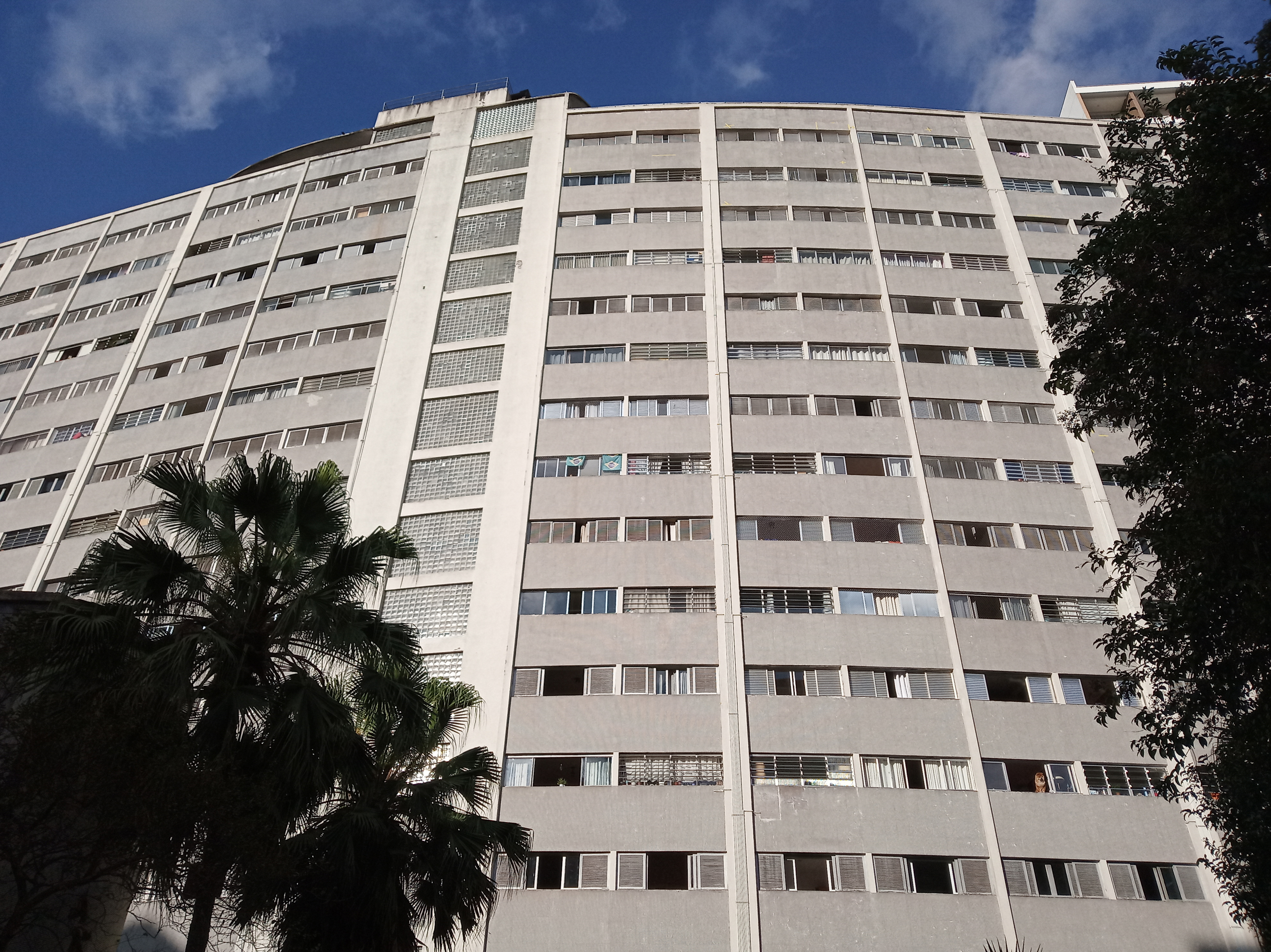 Edifício Japurá - Fachada Leste.